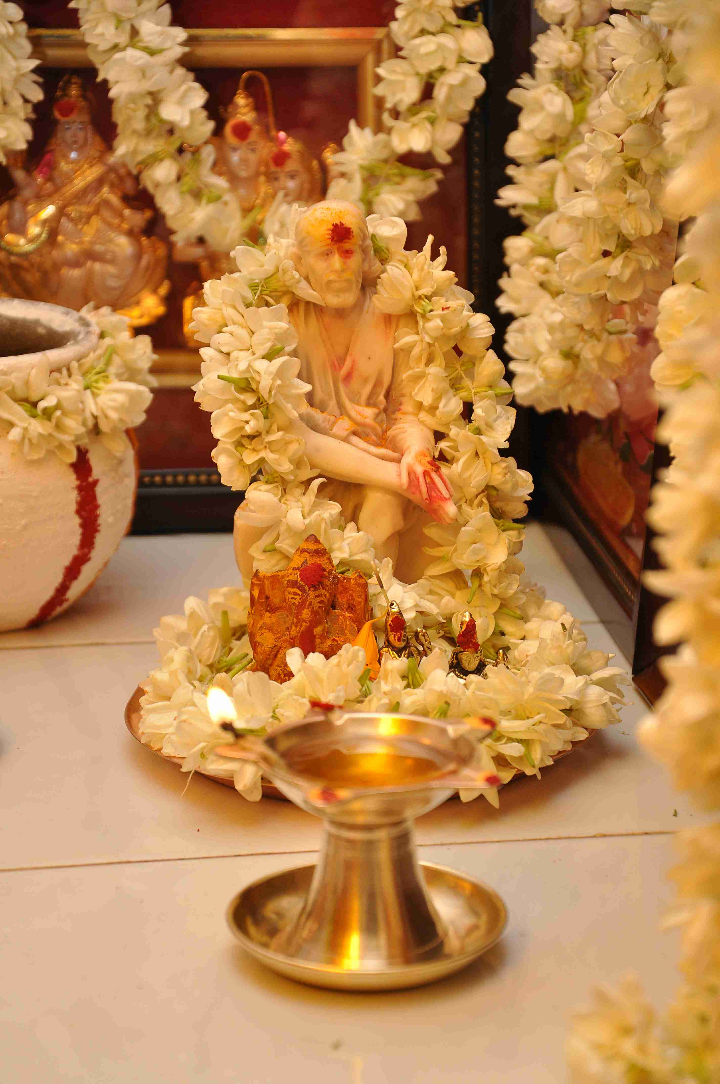 sai baba is a famous GOD for every Indian. daily Indians pray for their needs.